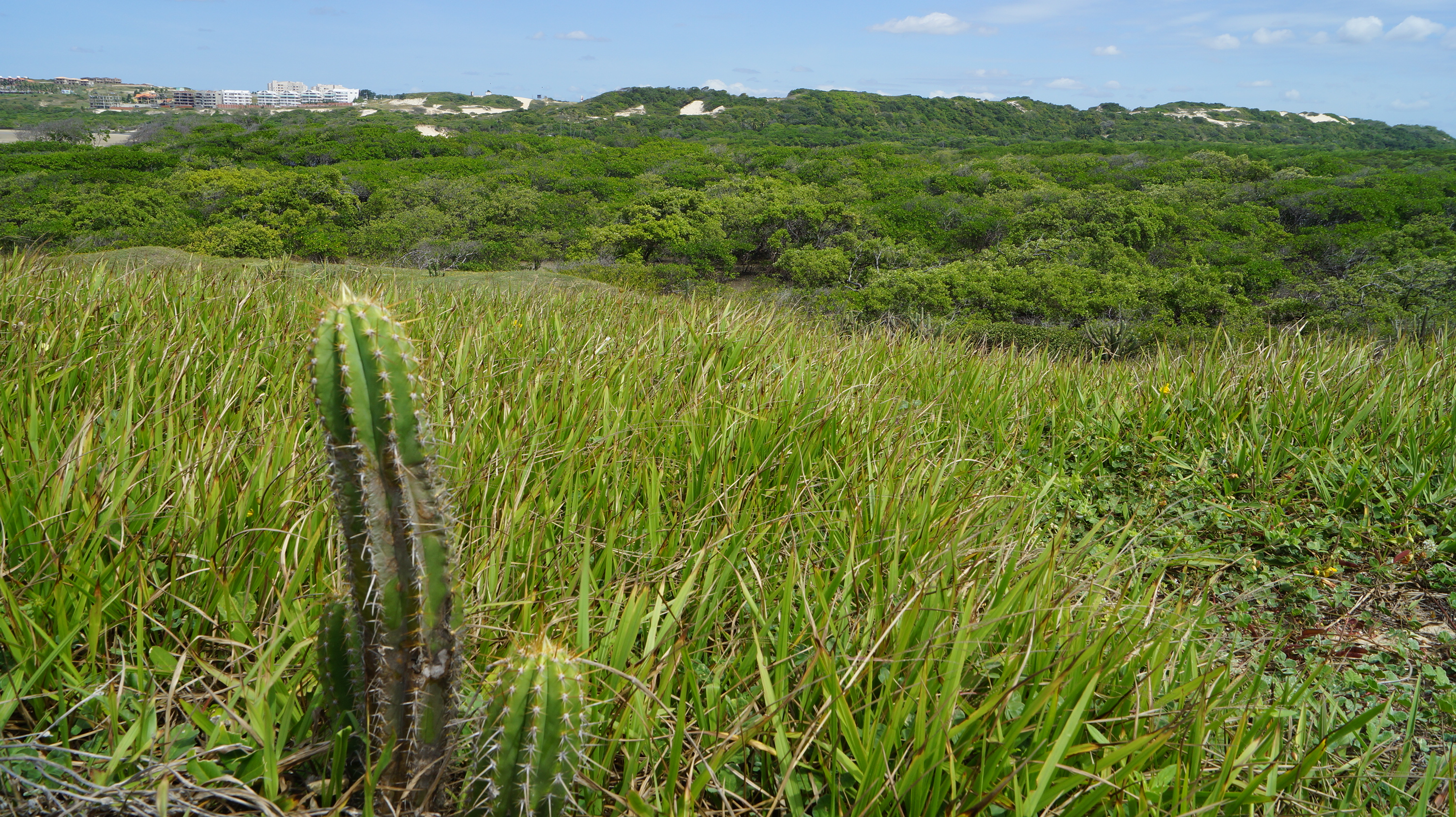 Natural vegetation in the coastal region, Aquiraz, Brazil